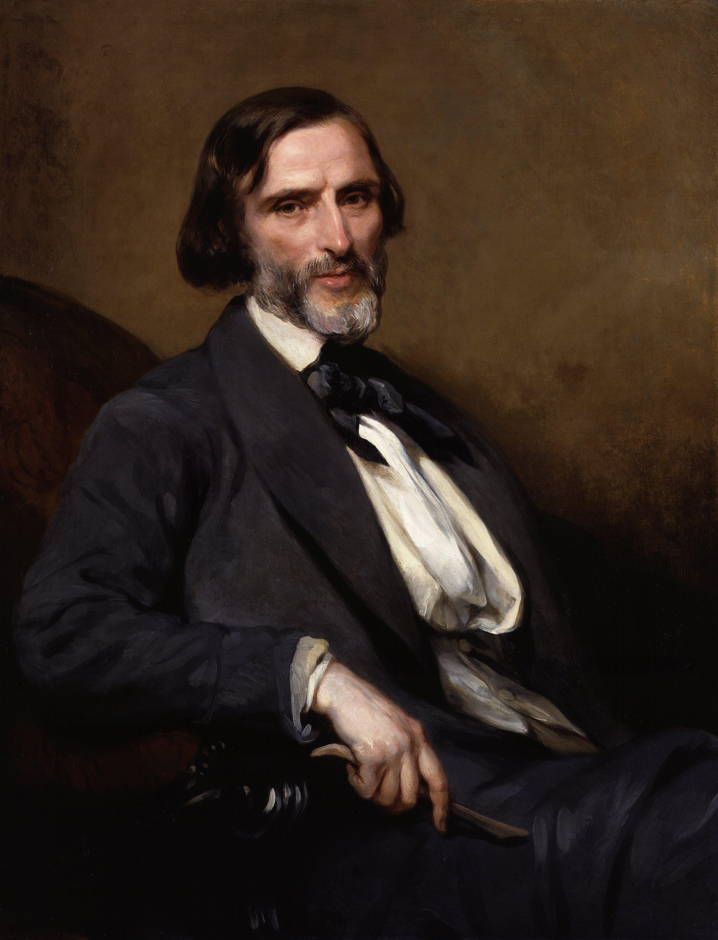 John Gibson, by Margaret Sarah Carpenter (née Geddes) (died 1872). All images in this batch have been confirmed as author died before 1939 according to the official death date listed by the NPG.